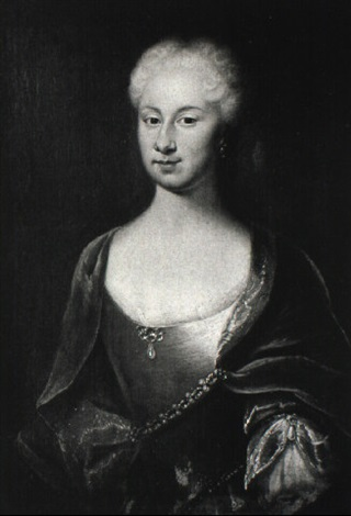 Sophia Hansdatter Seidelin